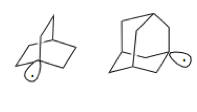 fdsaadsf